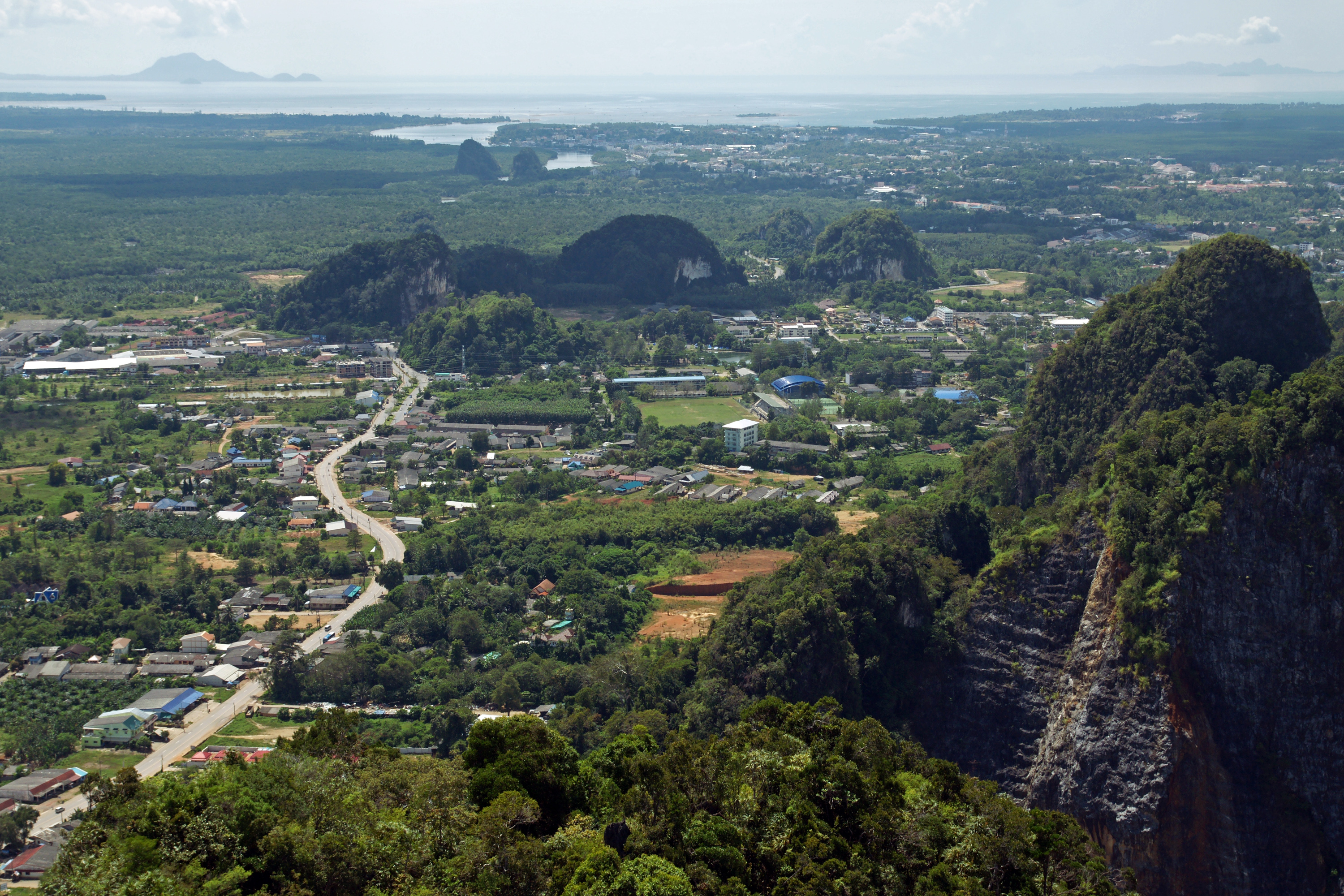 View from Tiger Cave Temple (Wat Tham Sua) in Krabi town, Krabi, Thailand.